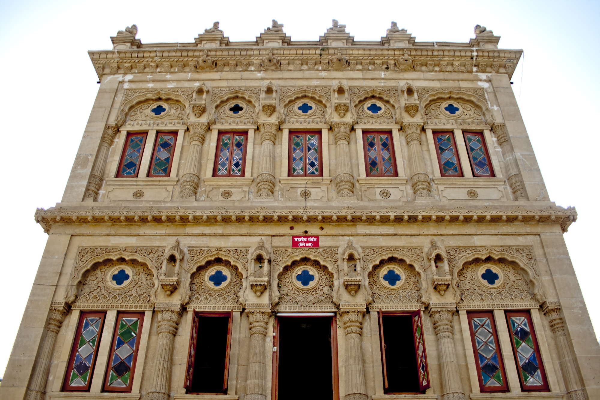 Mahadji Shinde Chattri